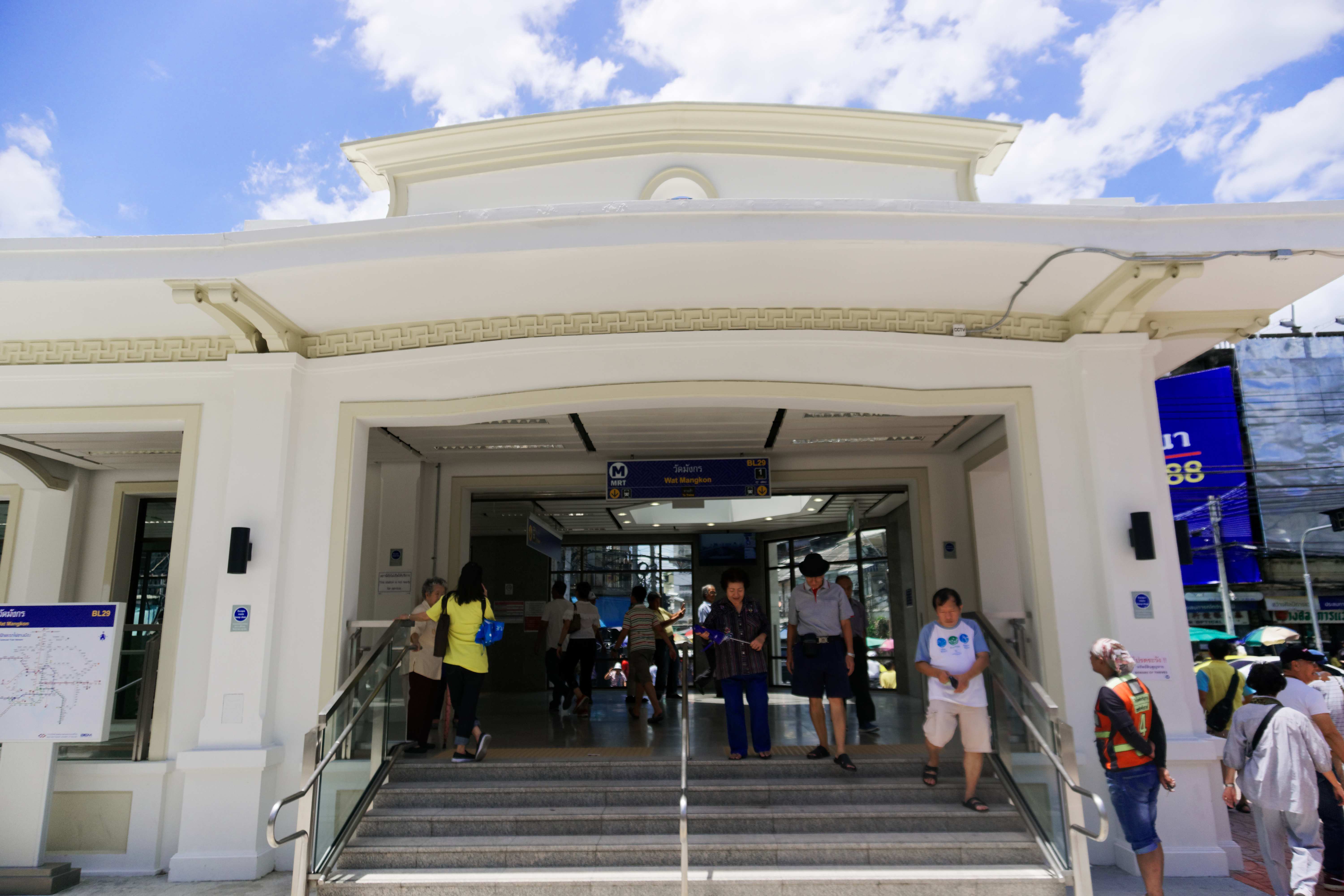 MRT Wat Mangkon train station: Entrance 1 The building you see isn't the actual one. But it's just a placeholder building contain an entrance and air duct for the train system.